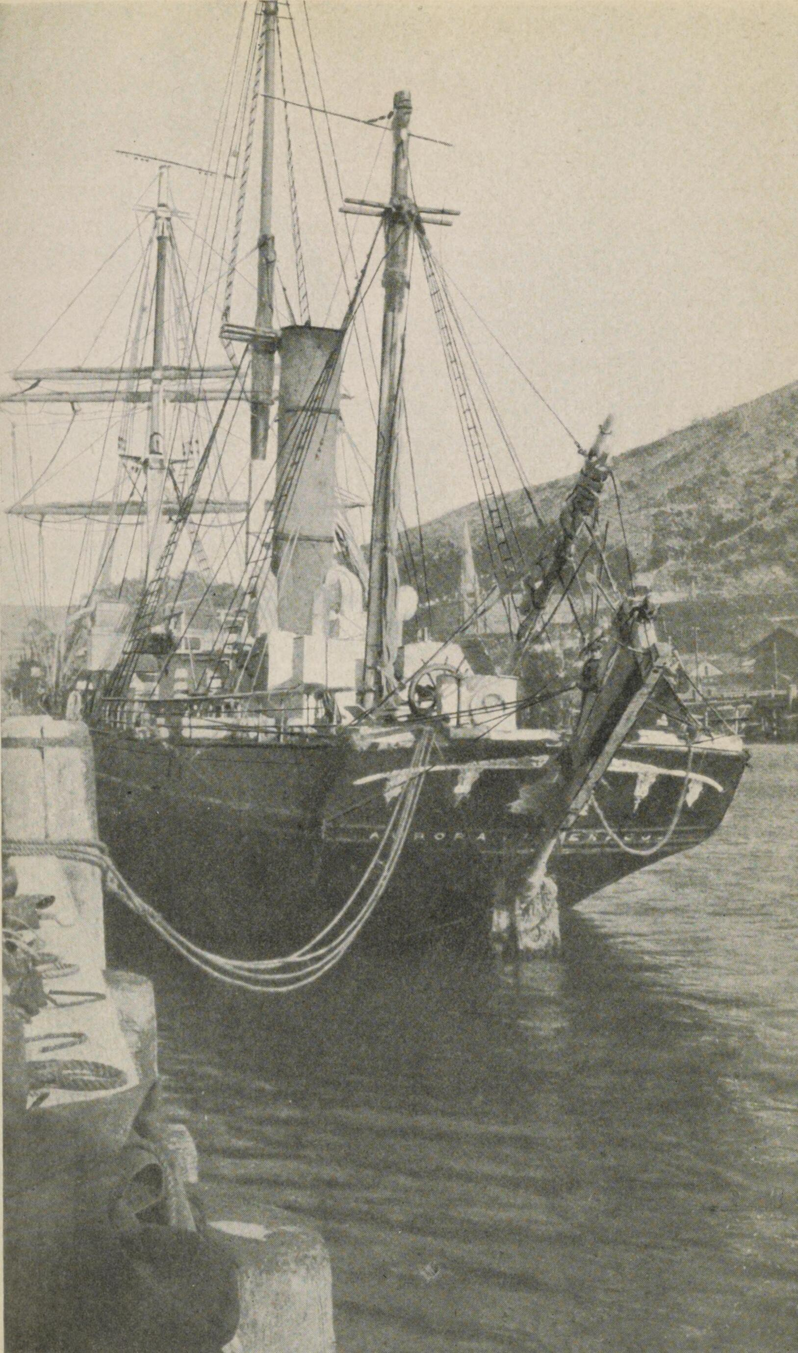 The Aurora (ship used by the Ross Sea party during the Imperial Trans-Antarctic Expedition 1914-17)